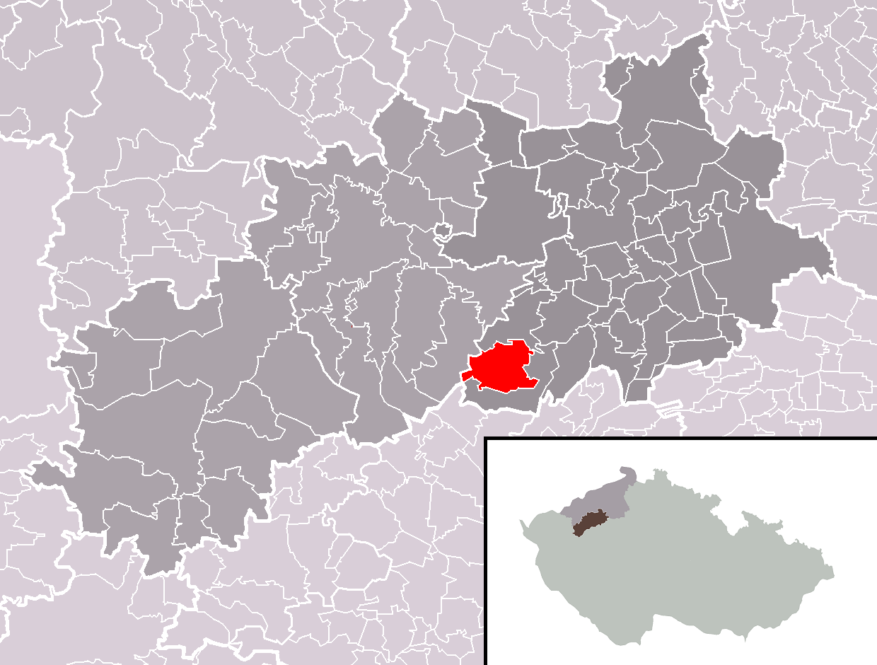 Location of Pnětluky municipality within Louny District and administrative area of Louny as a Municipality with Extended Competence.